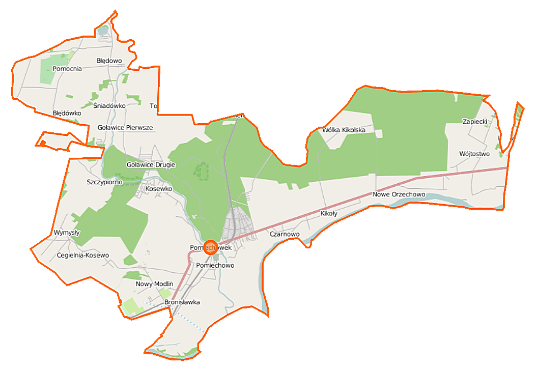 Map of Gmina Pomiechówek, Poland This map of Pomiechówek (gmina) was created from OpenStreetMap project data, collected by the community. This map may be incomplete, and may contain errors. Don't rely solely on it for navigation. Border coordinates52.553420.6200←↕→20.910152.4319